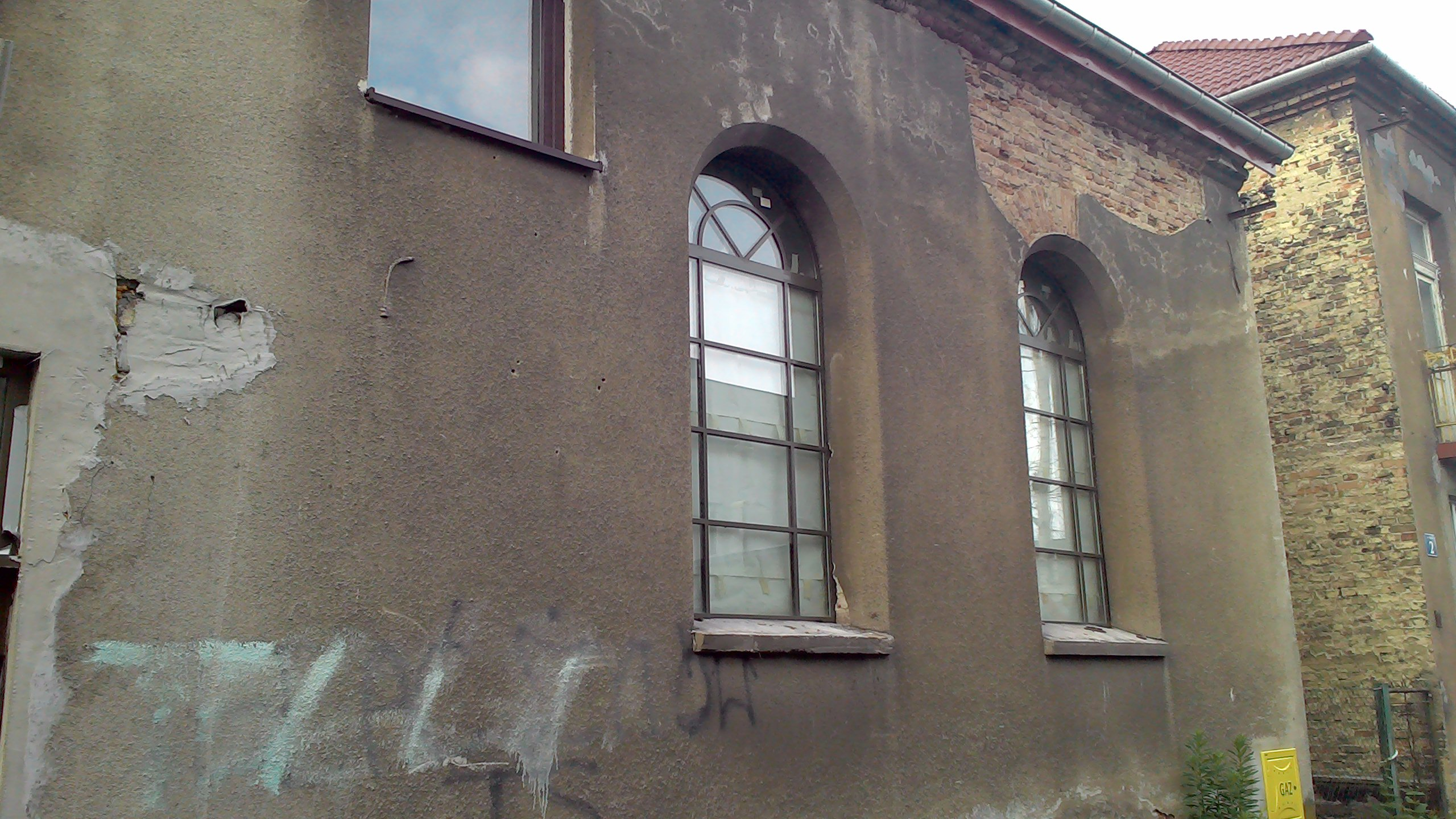 1 Wąska Street in Krzeszowice. Synagogue in Krzeszowice